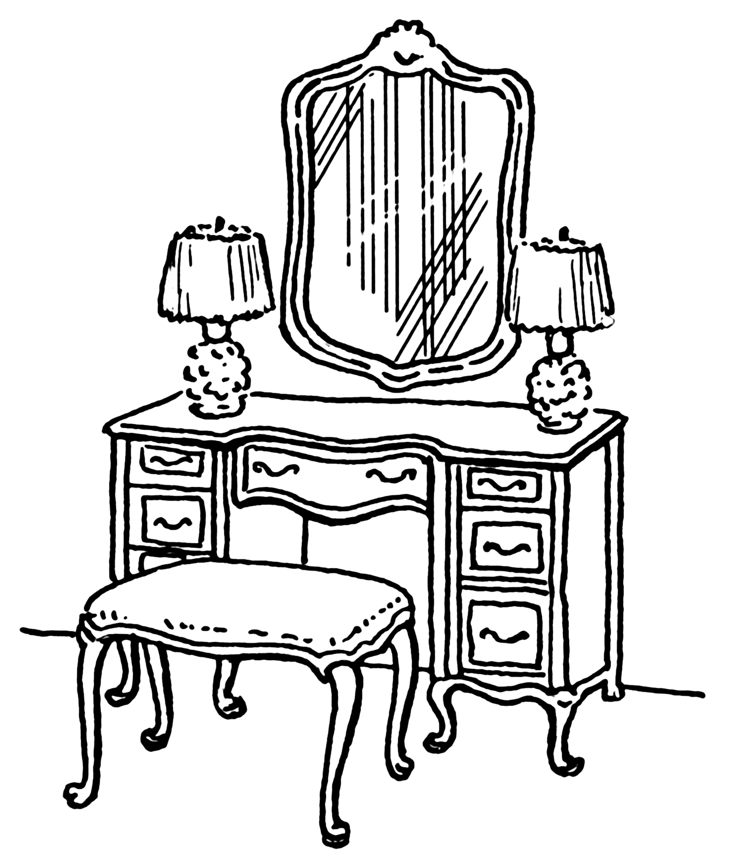 Illustration of a dressing table.